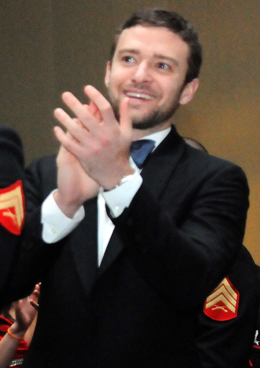 Cpl. Kelsey De Santis and her date Justin Timberlake applaud guest speaker retired Sgt. Maj. Ralph Larsen at the TBS (The Basic School) Instructor Battalion (from aboard Marine Corps Base Quantico, VA) Marine Corps Ball on Nov. 12. The Corps celebrated their 236th birthday on Nov. 10.